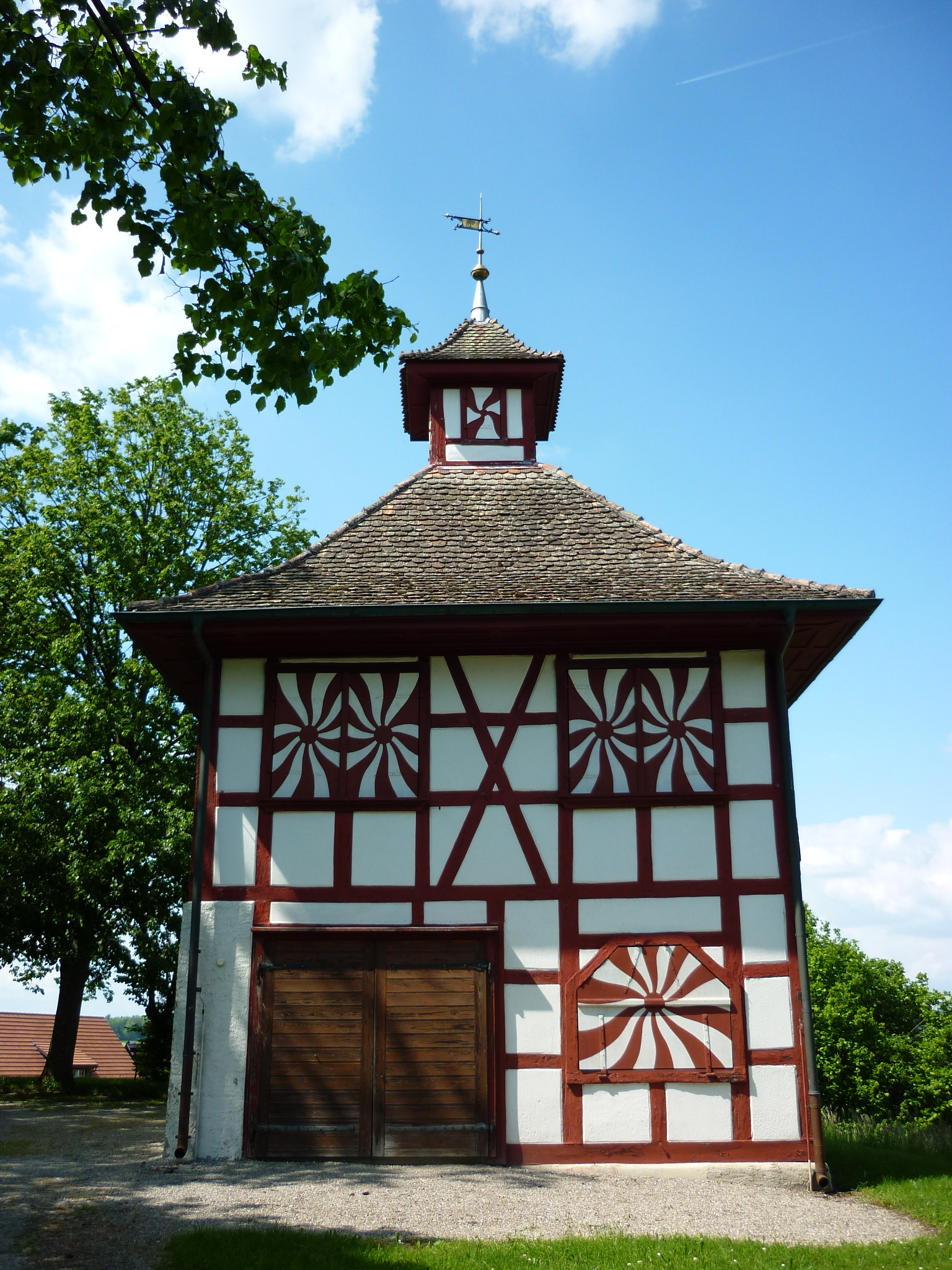 Old clubhouse, Marthalen ZH, Switzerland